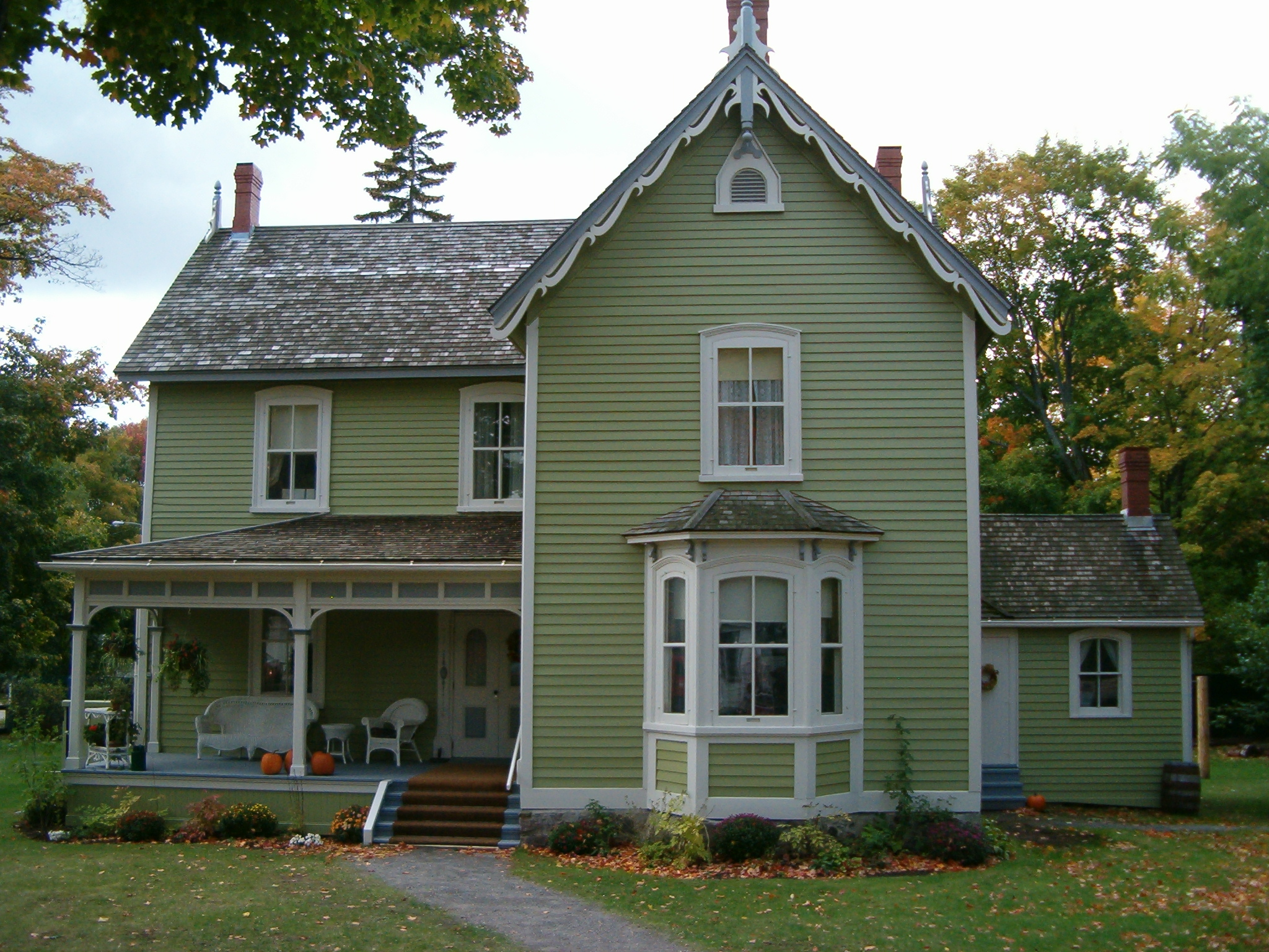 Beautiful lovely Victorain house in Gravenhurst welcomes visitors from all over the world.